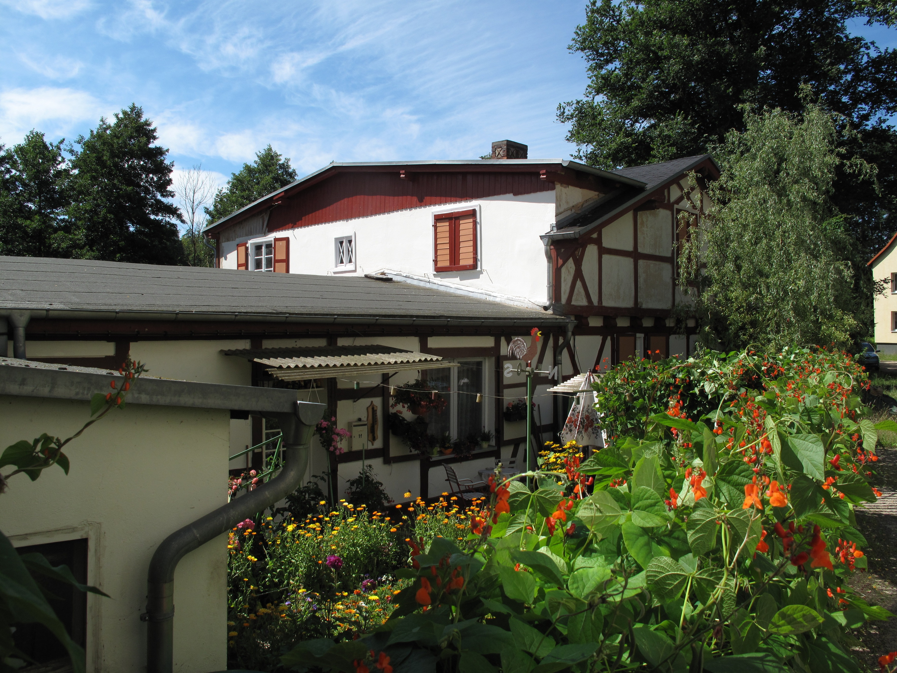 „Schule am Tornowsee“ in Tornow. Tornow is a hamlet of Pritzhagen, a village of the municipality Oberbarnim in the District Märkisch-Oderland, Brandenburg, Germany. The former demesme with a manor house from 1912 is today separated into a special education school („Schule am Tornowsee“) and a hotel with integrated work/job- and rehabilitation-training for people with mental disorders („Haus Tornow am See“). Tornow is situated at the northern bank of the Große Tornowsee (lake).